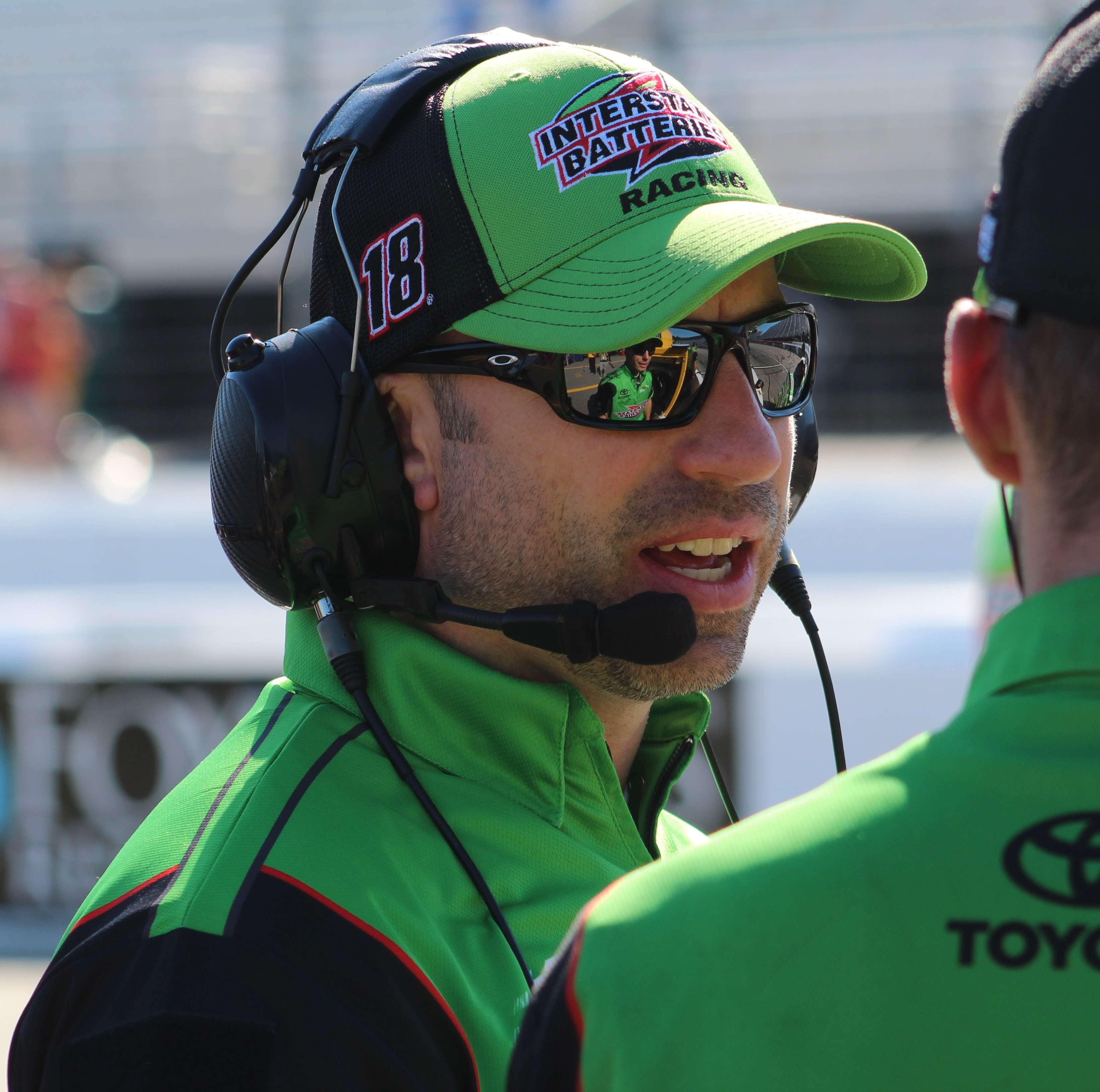 Adam Stevens at New Hampshire Motor Speedway in 2018